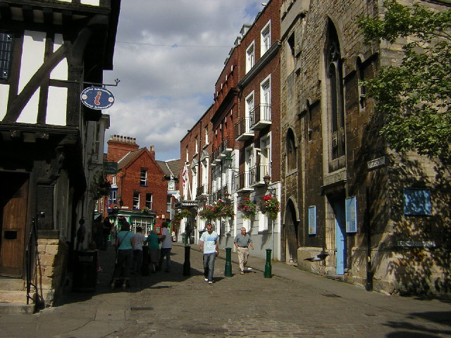 Bailgate. Looking north up Bailgate from Castle Square, The White Hart Hotel is on the right